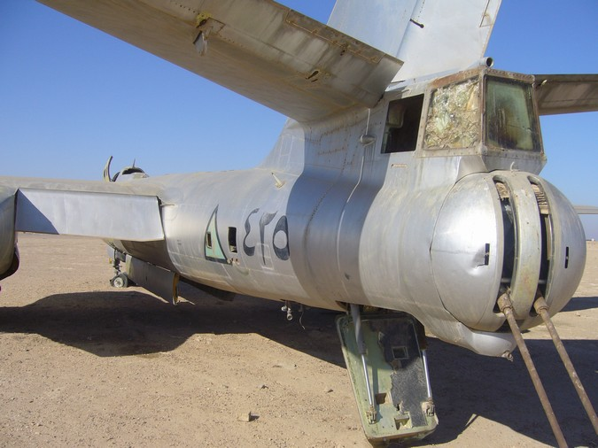 Another Iraqi Il-28 bomber seen from the rear.